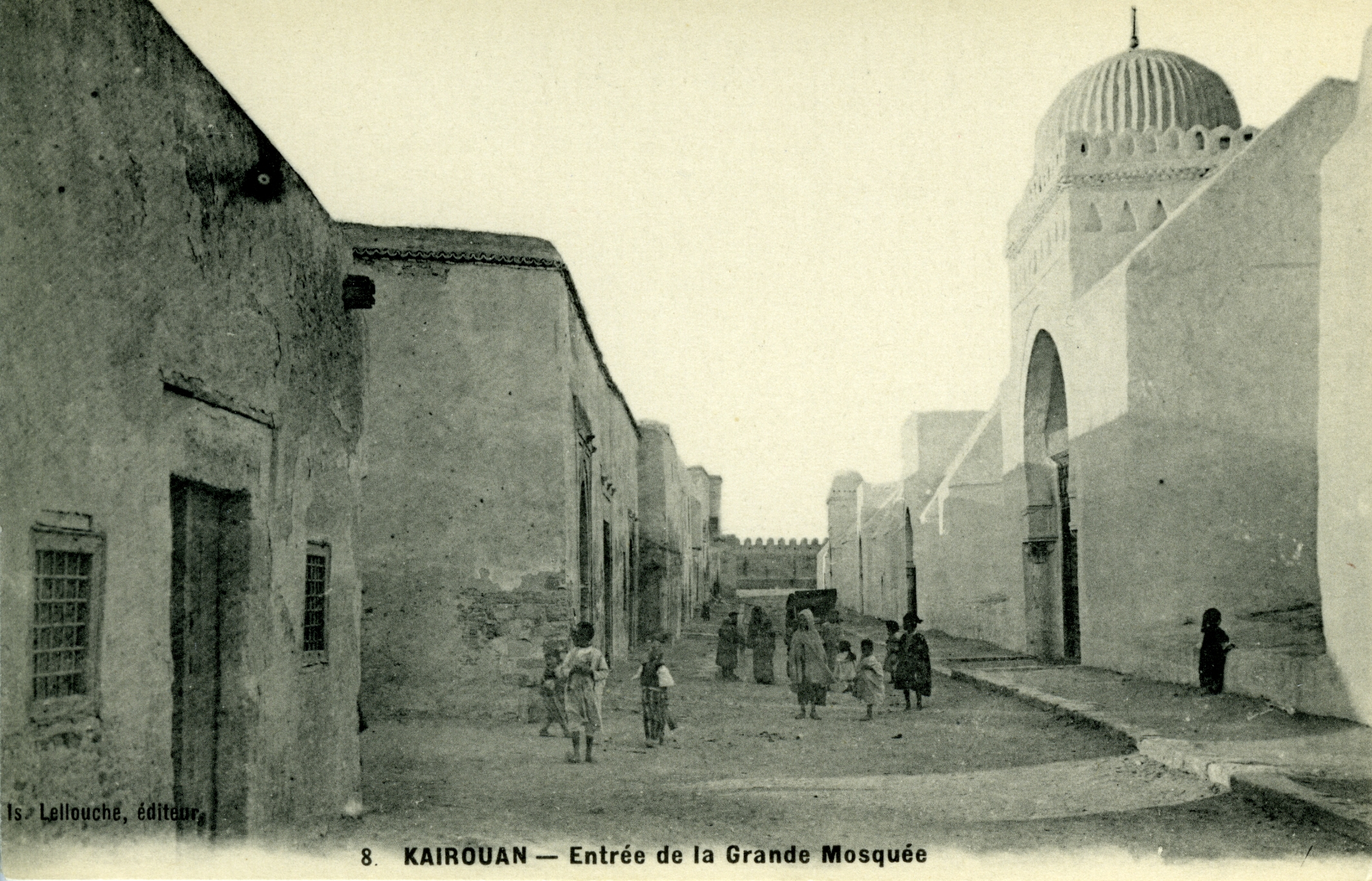 Street scene with the wall and gates of the Great Mosque of Kairouan — Kairouan, Tunisia. 1900 postcard.